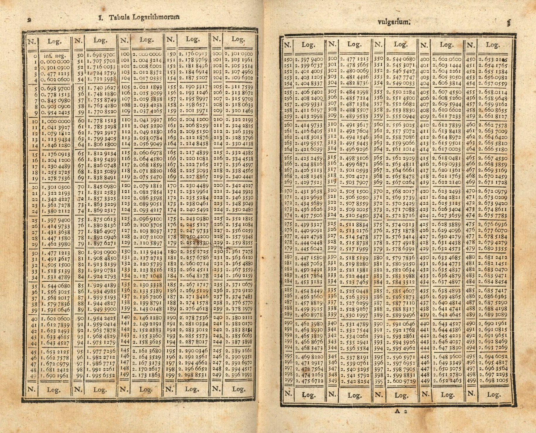 "Tabula logarithmorum vulgarium" from Logarithmisch-trigonometrische Tafeln nebst andern zum gebrauch der Mathematik eingerichteten Tafeln und Formeln, Leipzig: 1797, by Georg, Freiherr von Vega (1754-1802). Math 837.97*, Houghton Library, Harvard University